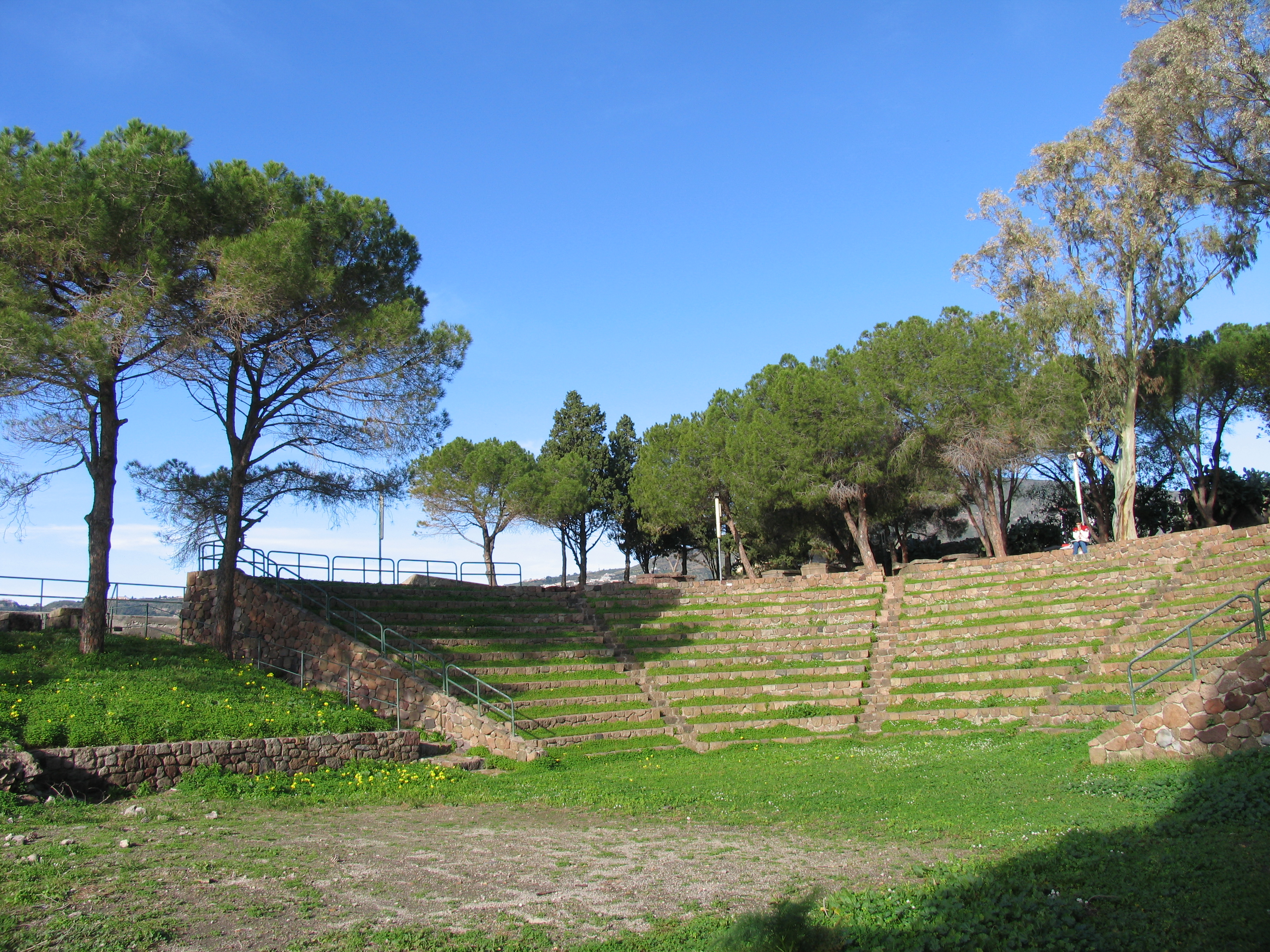 Greek Theatre on Lipari Castle, Eolian islands, Sicily, Italy